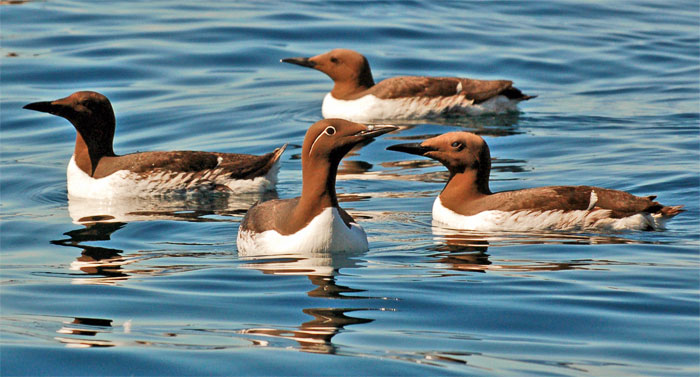 Common Guillemot at the bird island Runde in Norway